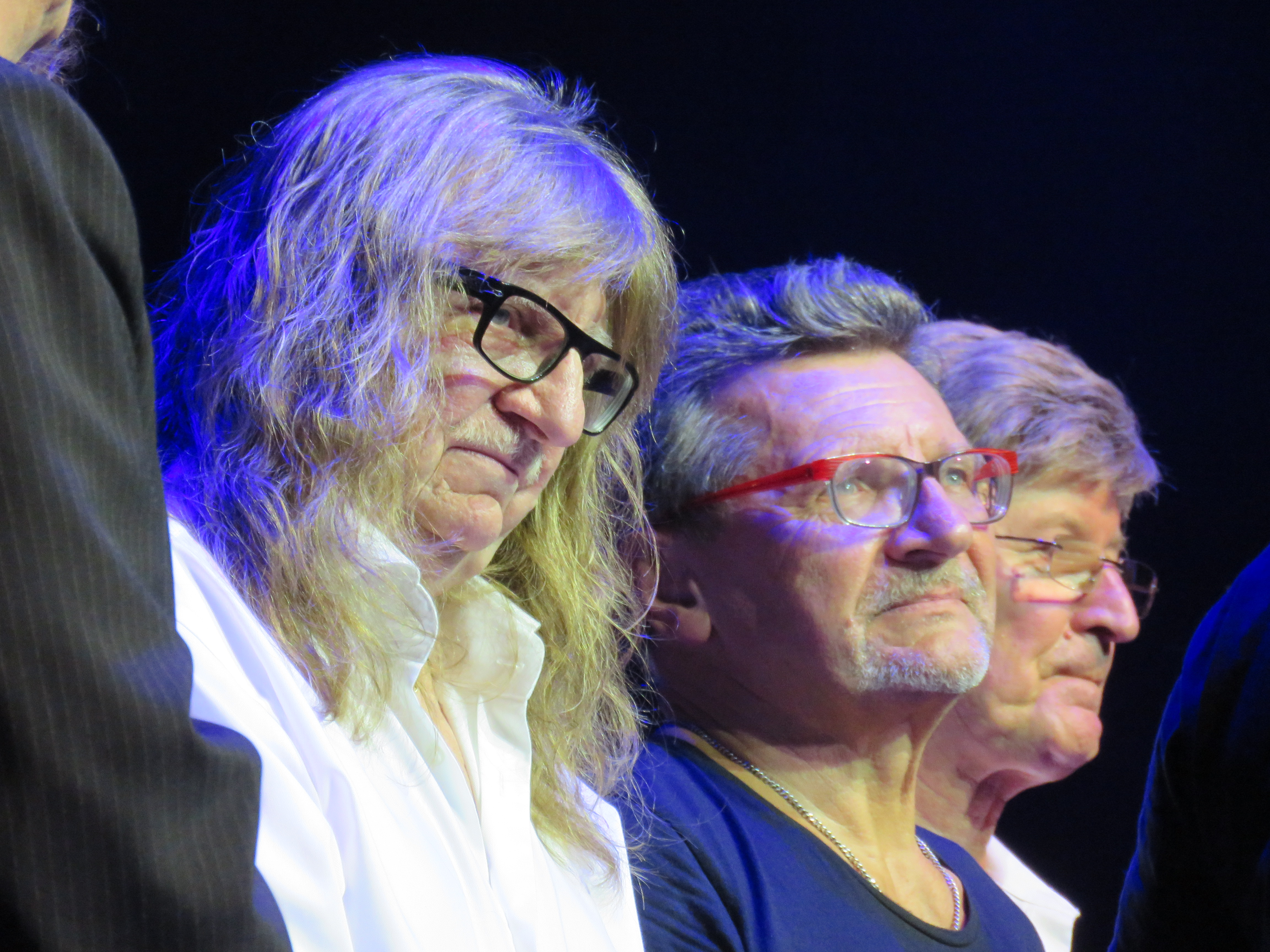 Brothers: Andrzej Zieliński (b. October 5, 1944 in Gdów, Poland) – Polish singer, pianist, composer and arranger. Founder of Skaldowie, and Jacek Zieliński (b. September 6, 1946 in Cracow, Poland) – Polish vocalist, trumpeter, violinist, arranger and composer (Skaldowie). They live in Cracow, Poland